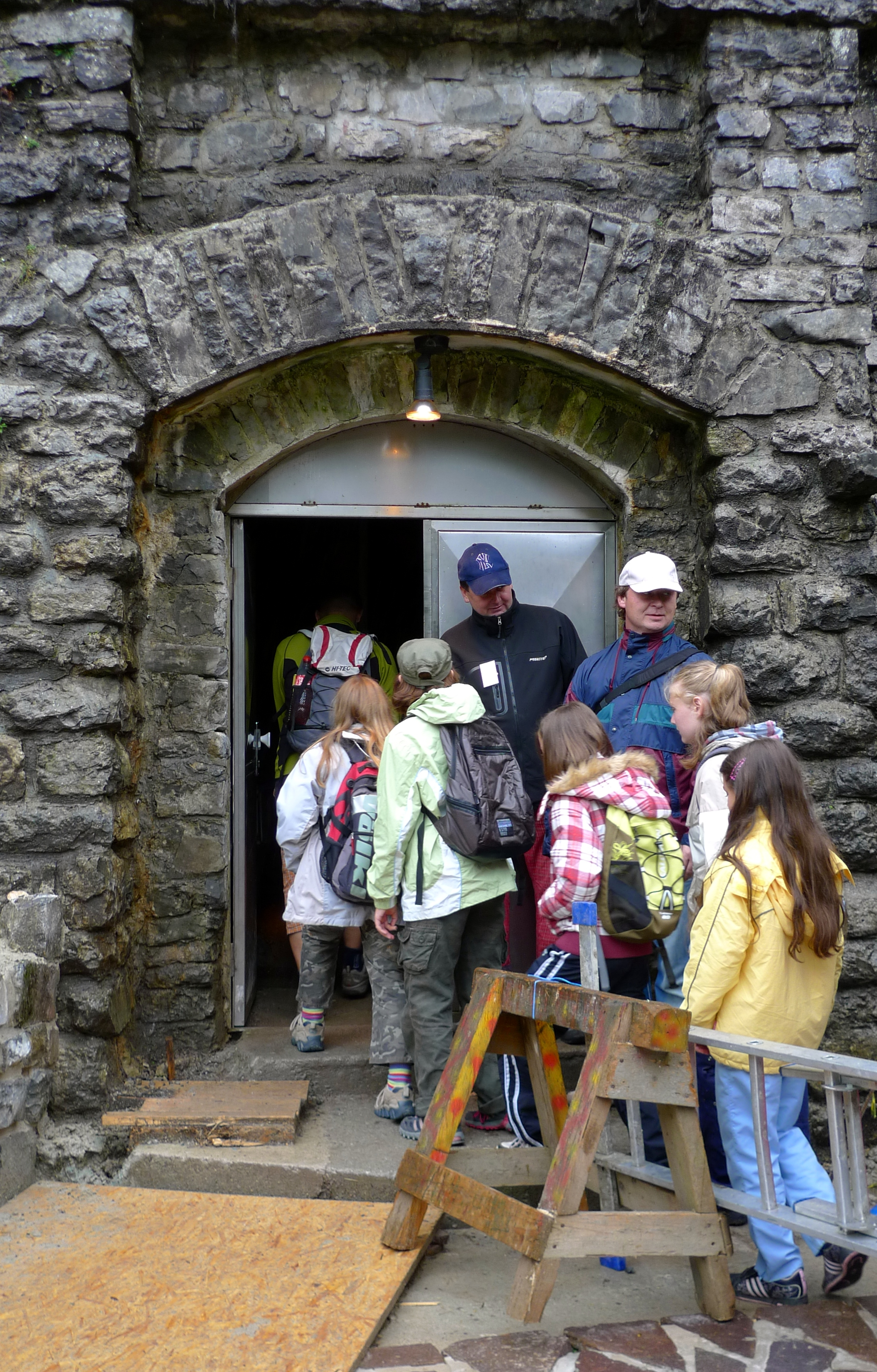 Bielanska cave in Slovakia - entry